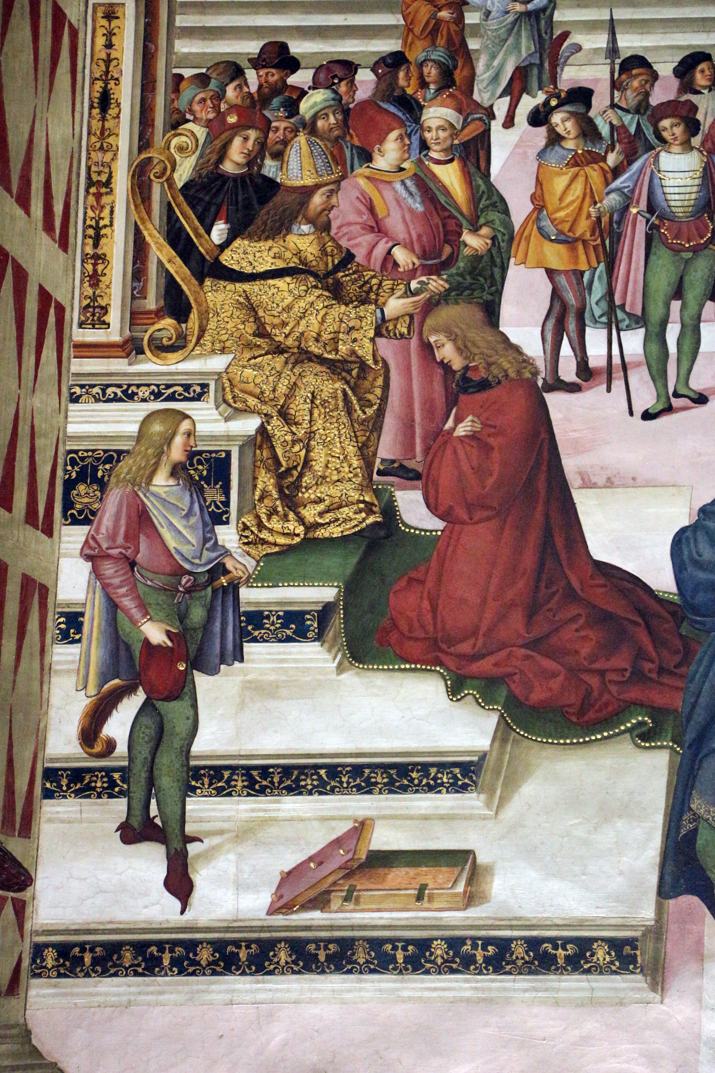 Cathedral (Siena) - Piccolomini Library - Frescos of Pius II, 3